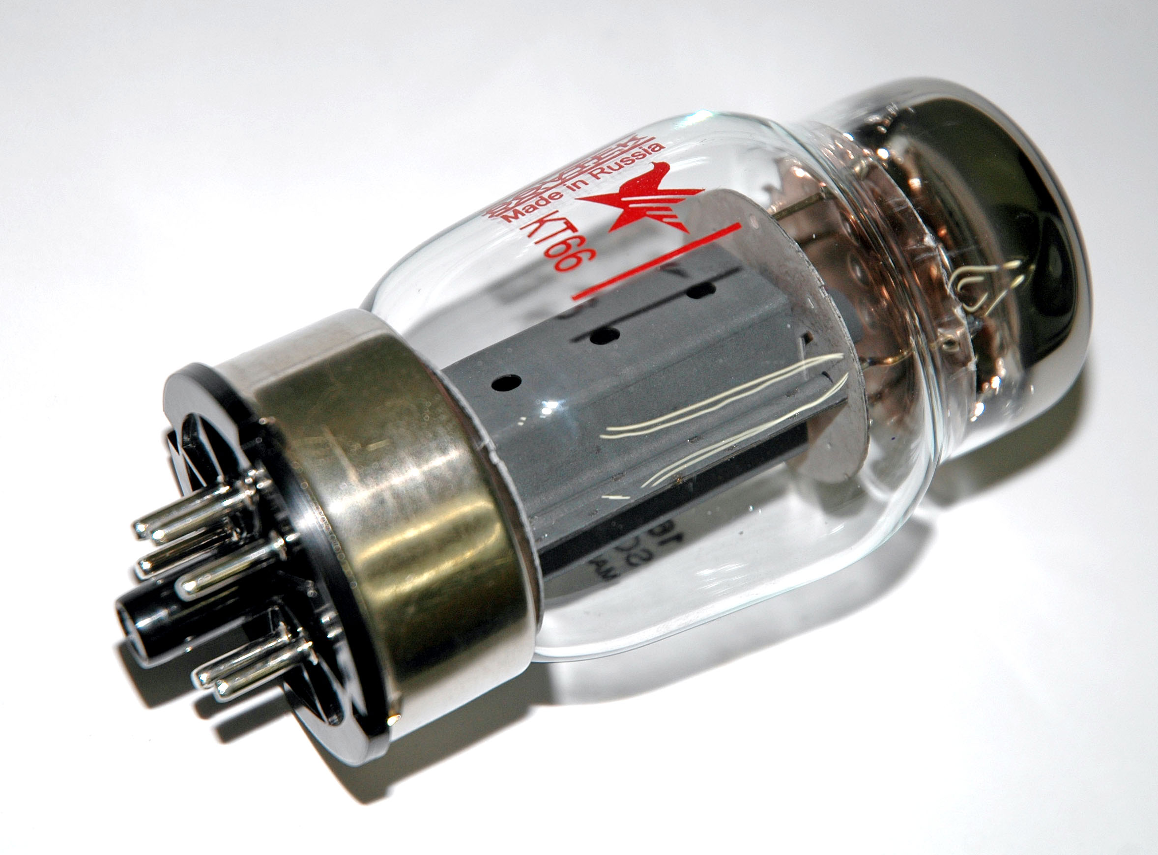 Vacuum tubes, resistors, diodes, a Tube Screamer guitar pedal, transistors, terminal strips and more!